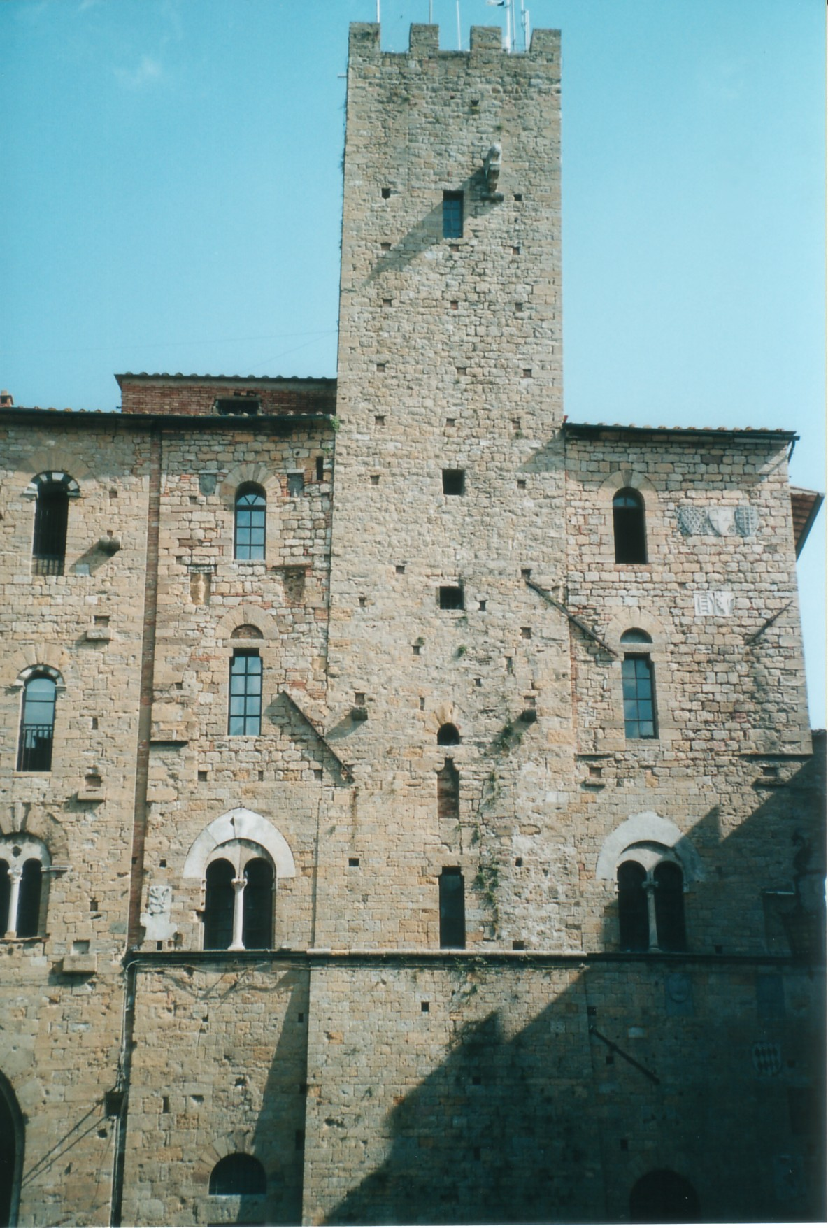 Author Giorces.